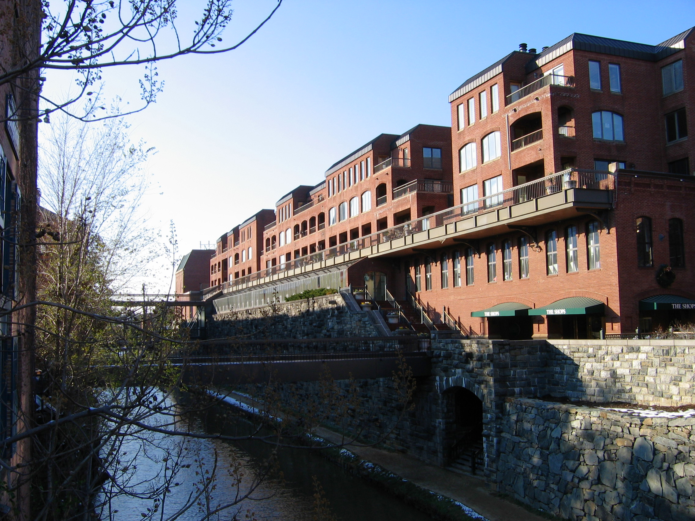 Chesapeake and Ohio Canal (C&O Canal) in Georgetown (Washington, D.C.) Photo taken by Kmf164 on December 6, 2005.